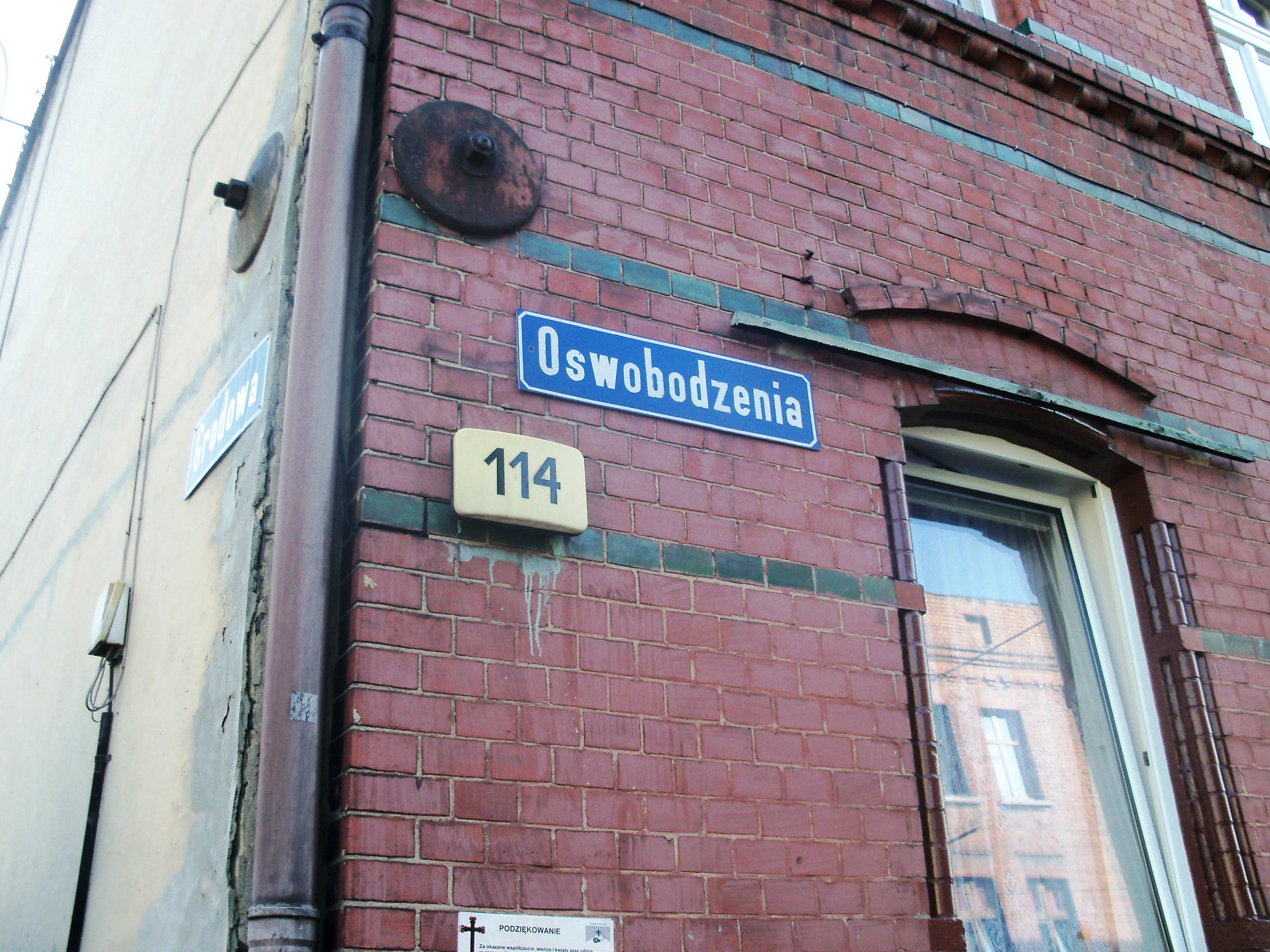 Oswobodzenia Street in Katowice